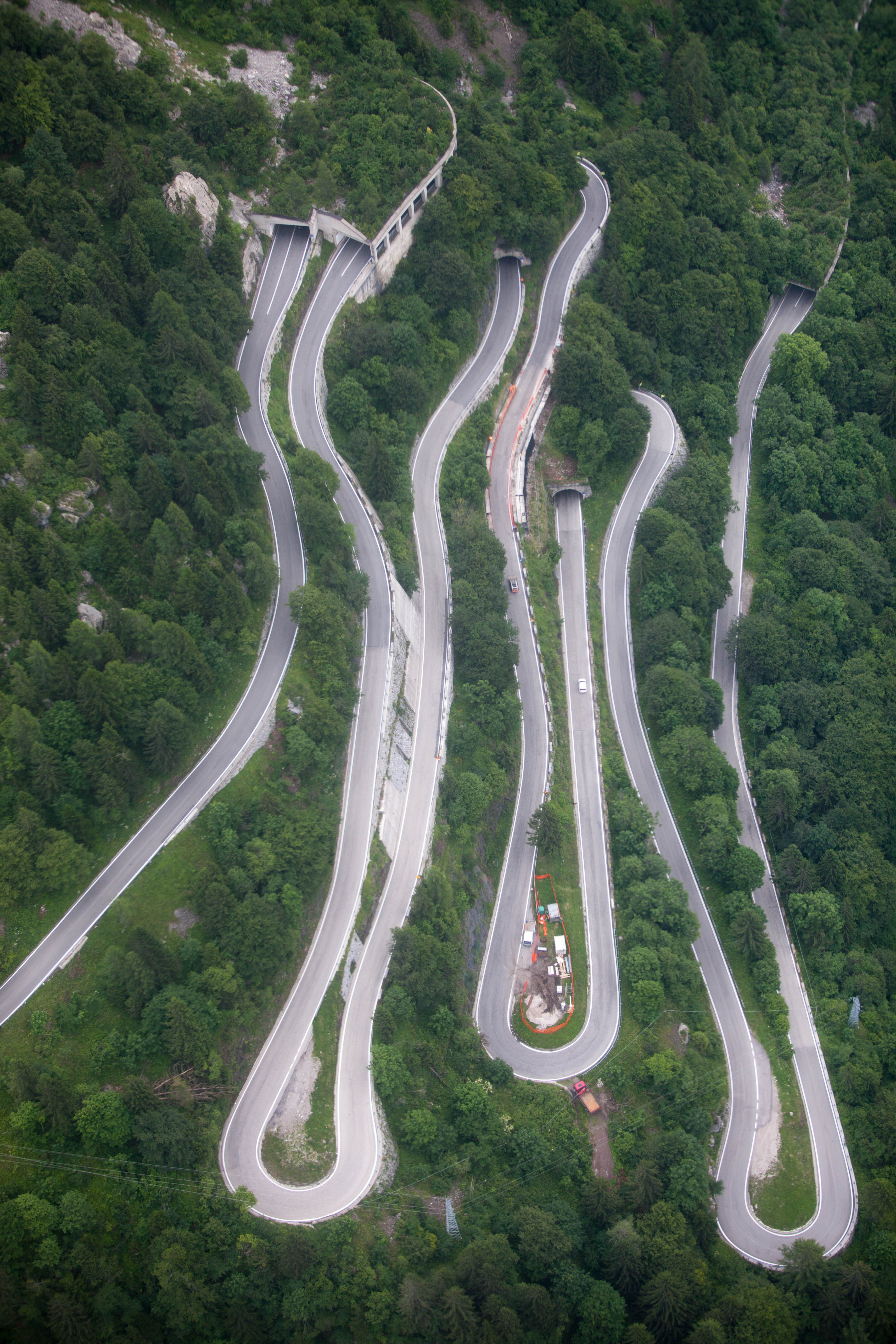 Plöcken Pass, between Austria and Italy. The pass already had a good road during the middle ages. These hairpin turns are on the southern (Italian) side.